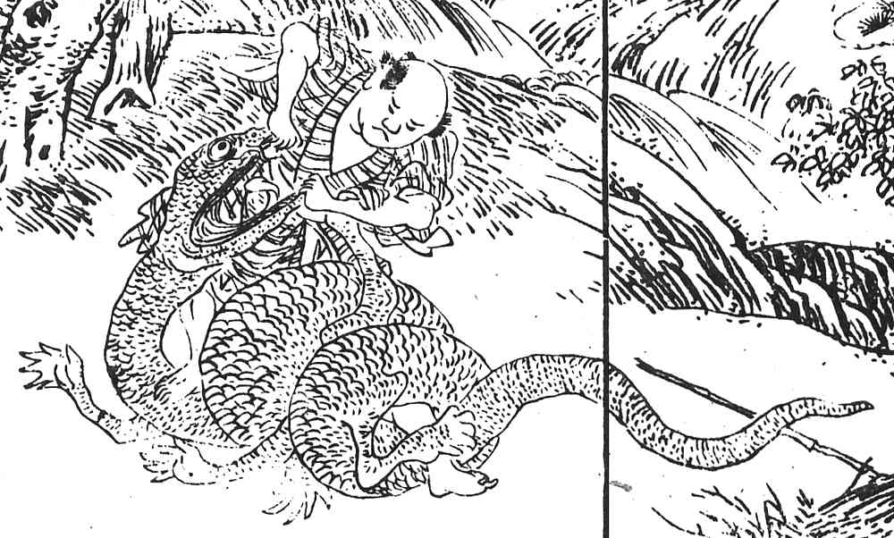 Nomorimushi from the "Manyūki" (漫遊記, Japanese book)